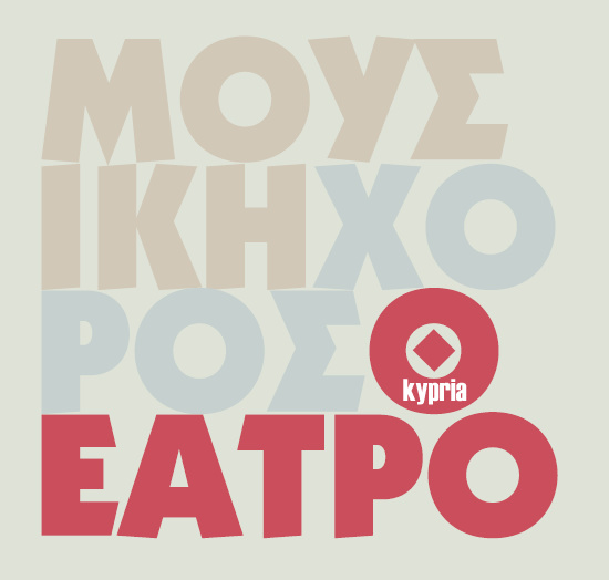 Part of the program of events